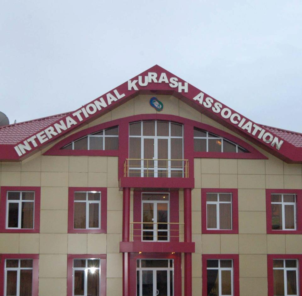 Headquarters of International Kurash Association in Tashkent, Uzbekistan.